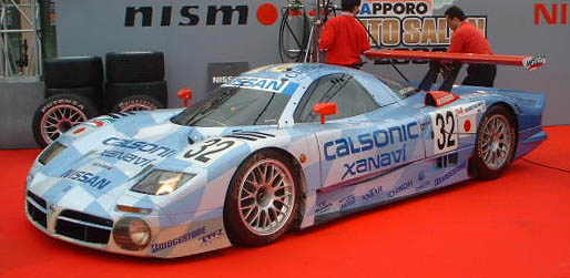 Nissan R390: Runner-up at the 1998 24 Hours of Le Mans, also the same stunner that was featured in Gran Turismos 3 and 4